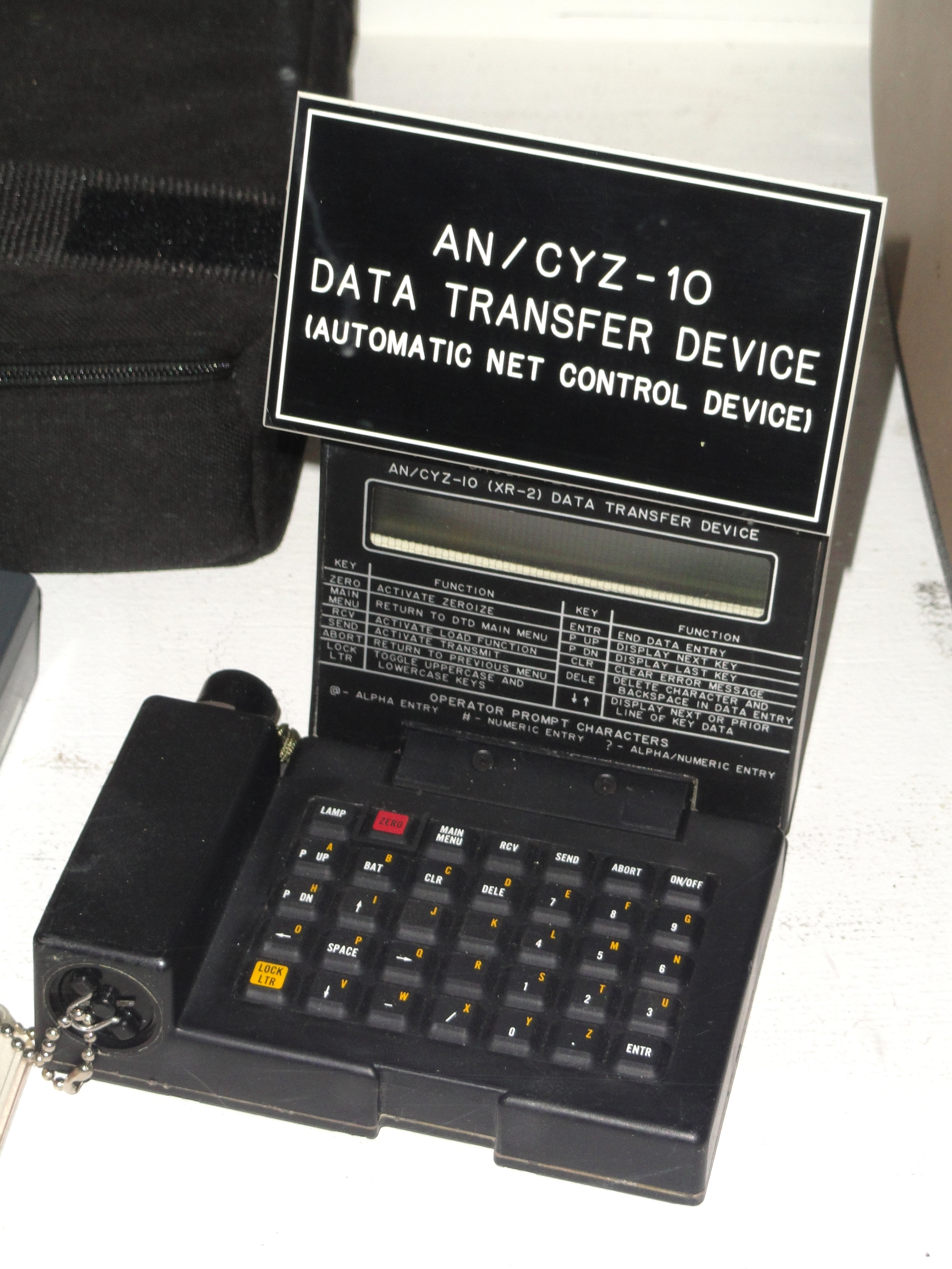 Exhibit in the National Cryptologic Museum, Fort Meade, Maryland, USA. All items in this museum are unclassified; items created by the United States Government are not subject to copyright restrictions.